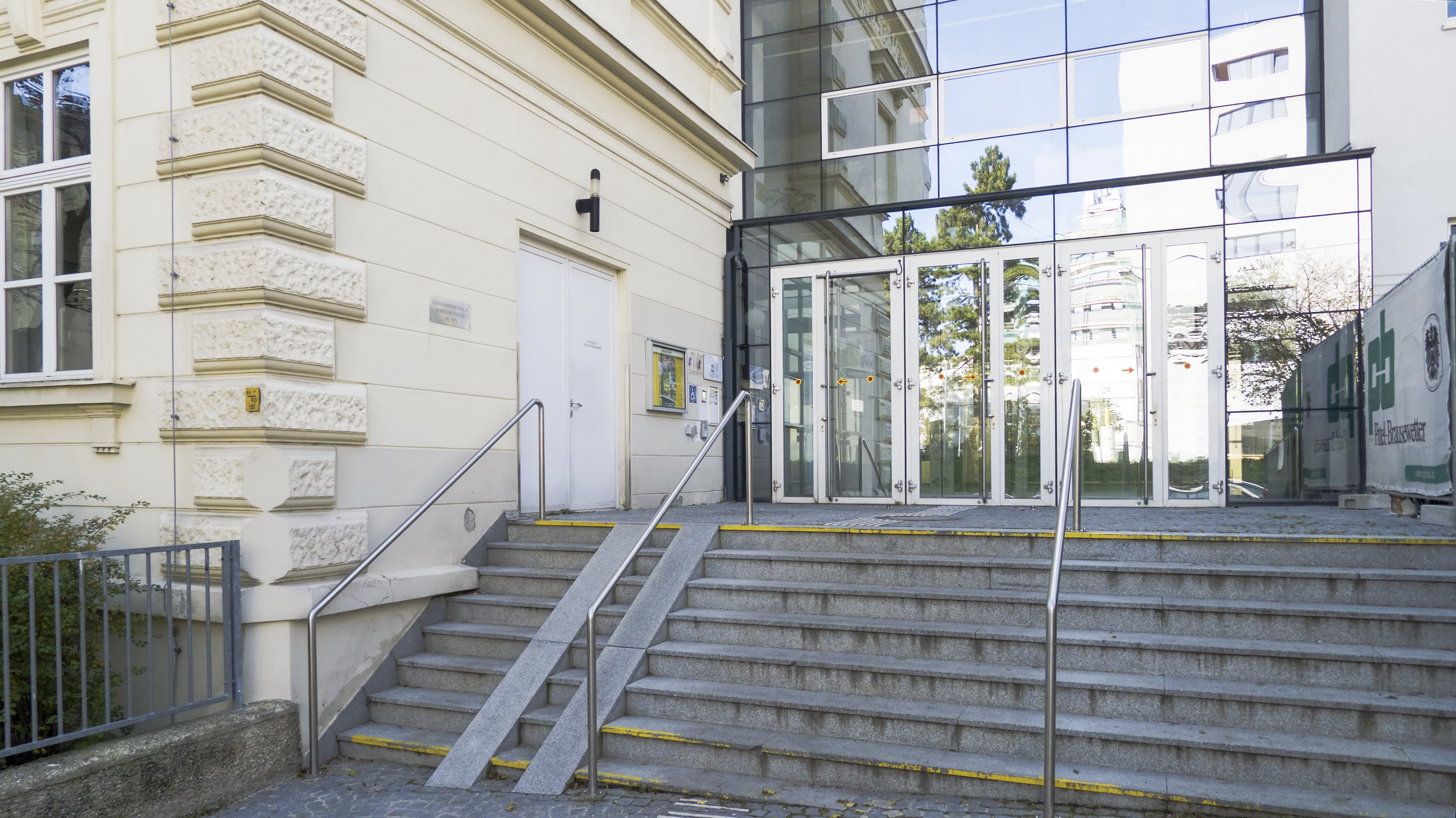 High school Döblinger Gymnasium in Vienna 19